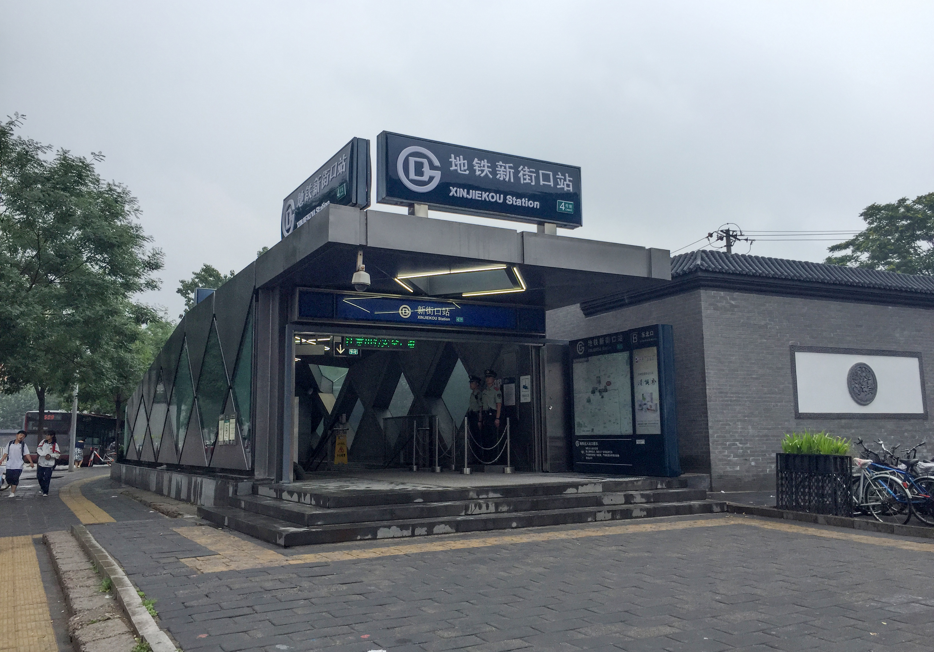 Armed police on guard.